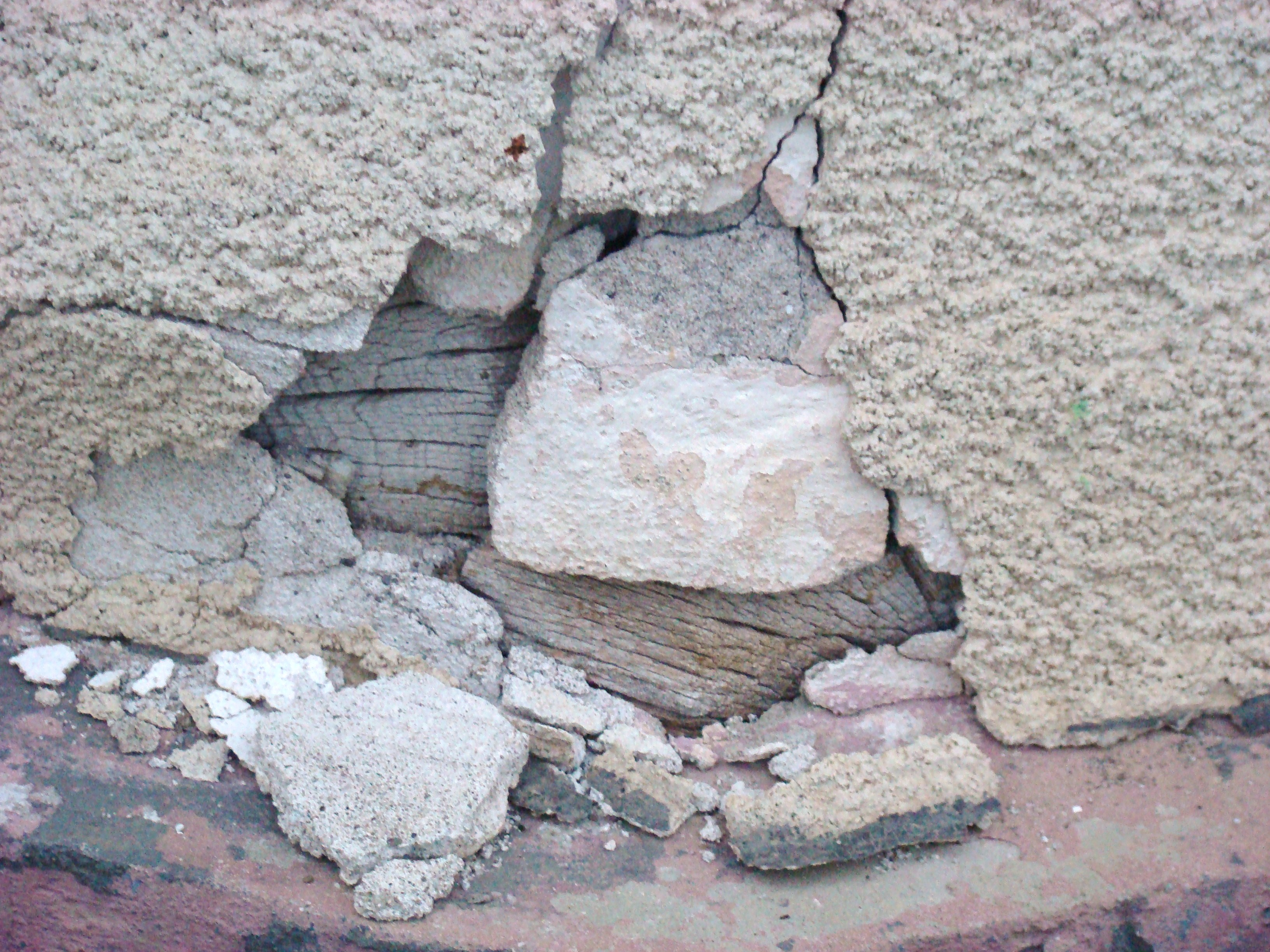 Wooden greek-catholic church in Julița, Arad county, Romania